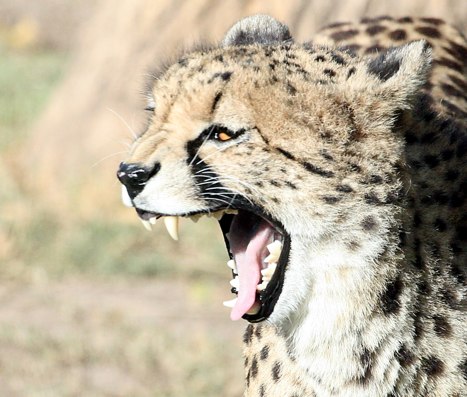 A cheetah (Acinonyx jubatus) yawning at the zoo, Temaikèn, Buenos Aires.